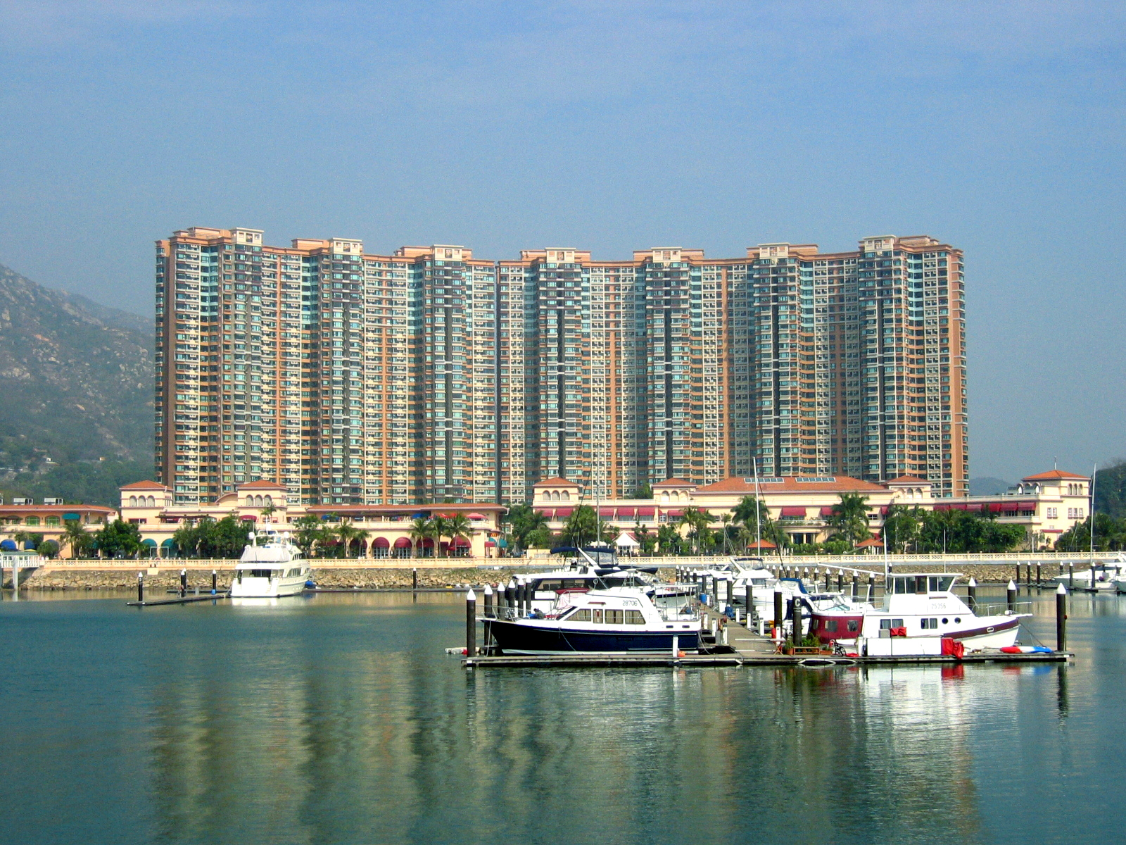 Aegean Coast